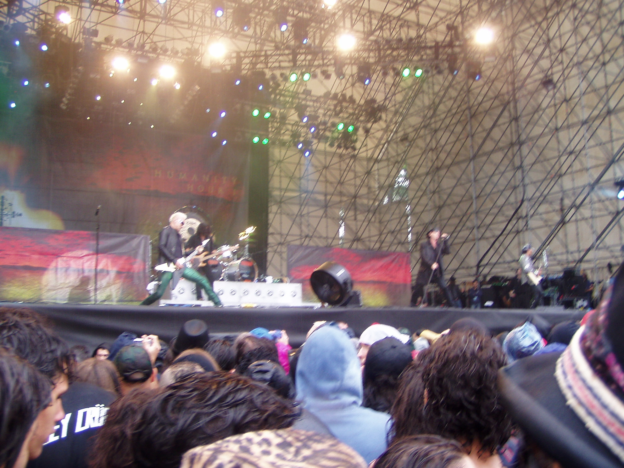 Gli Scorpions al Gods of Metal 2007